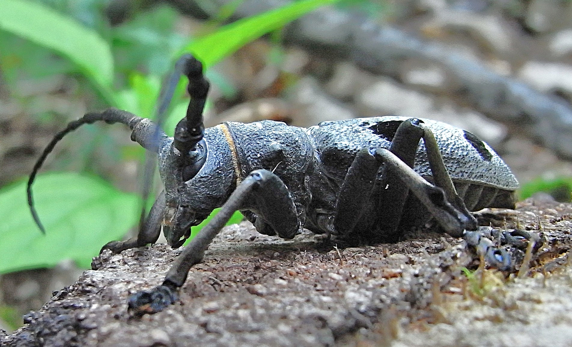 Morimus asper funereus from Vertes-mountains in Hungary at 2010-07-08Ricoh R8